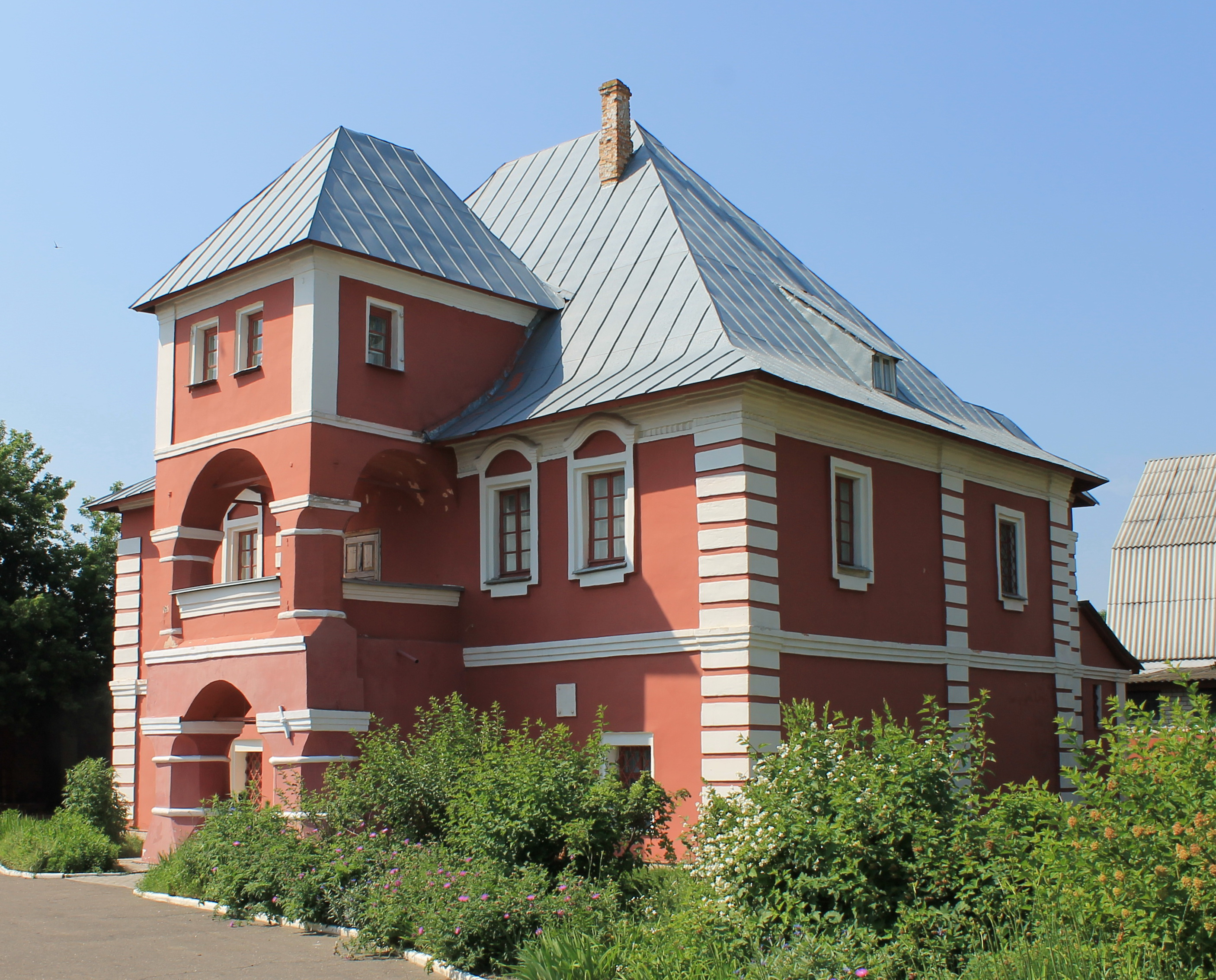 Kursk State Regional Museum of Archaeology